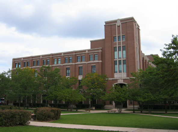 Richardson Library, built in 1992, on the Lincoln Park Campus of DePaul University in Chicago, IL.